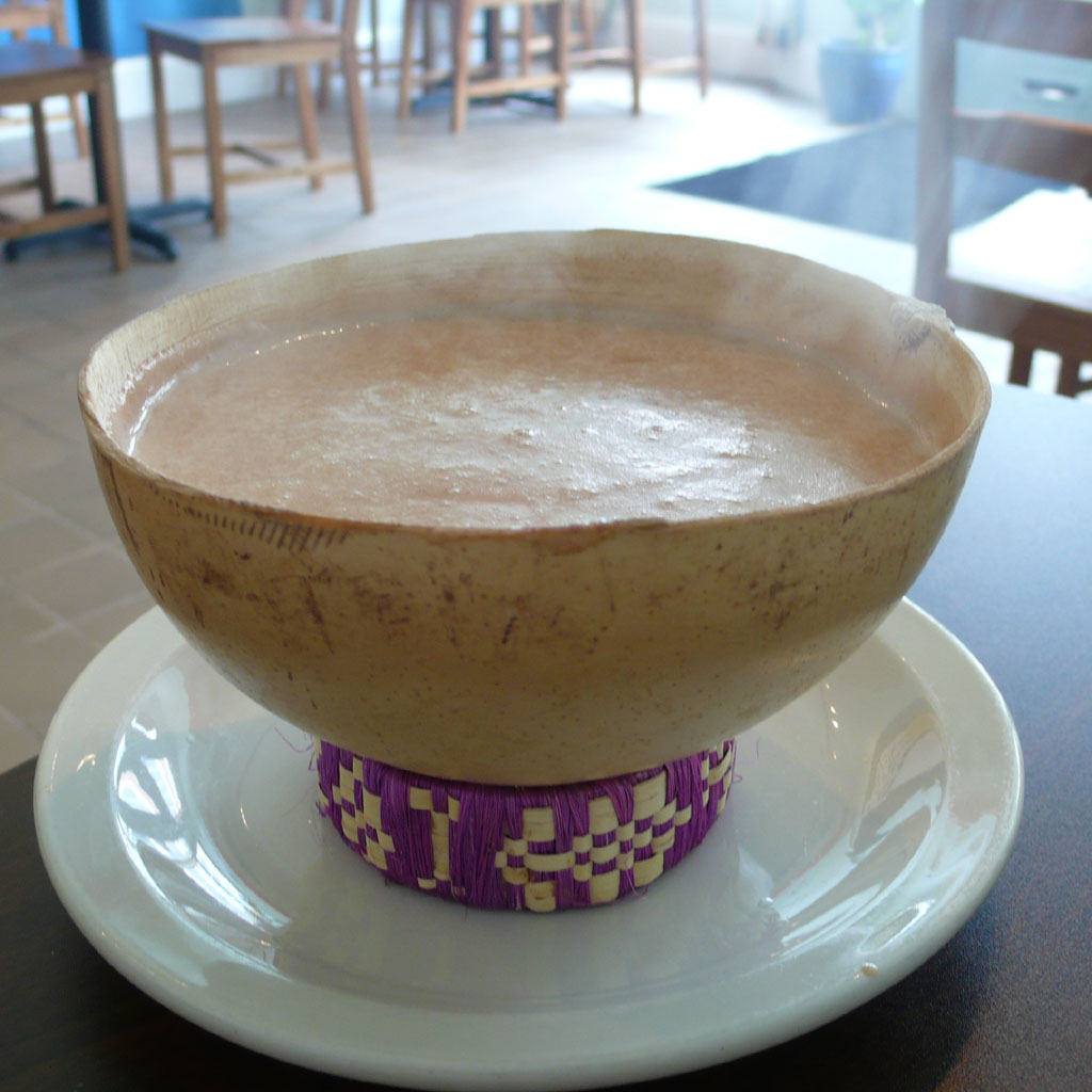 Champurrado.